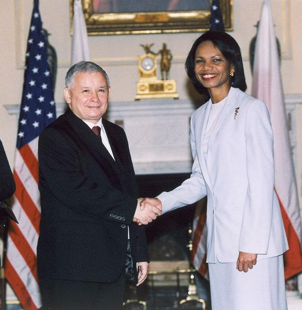 Secretary C. Rice With Prime Minister Jaroslaw Kaczynski of Poland